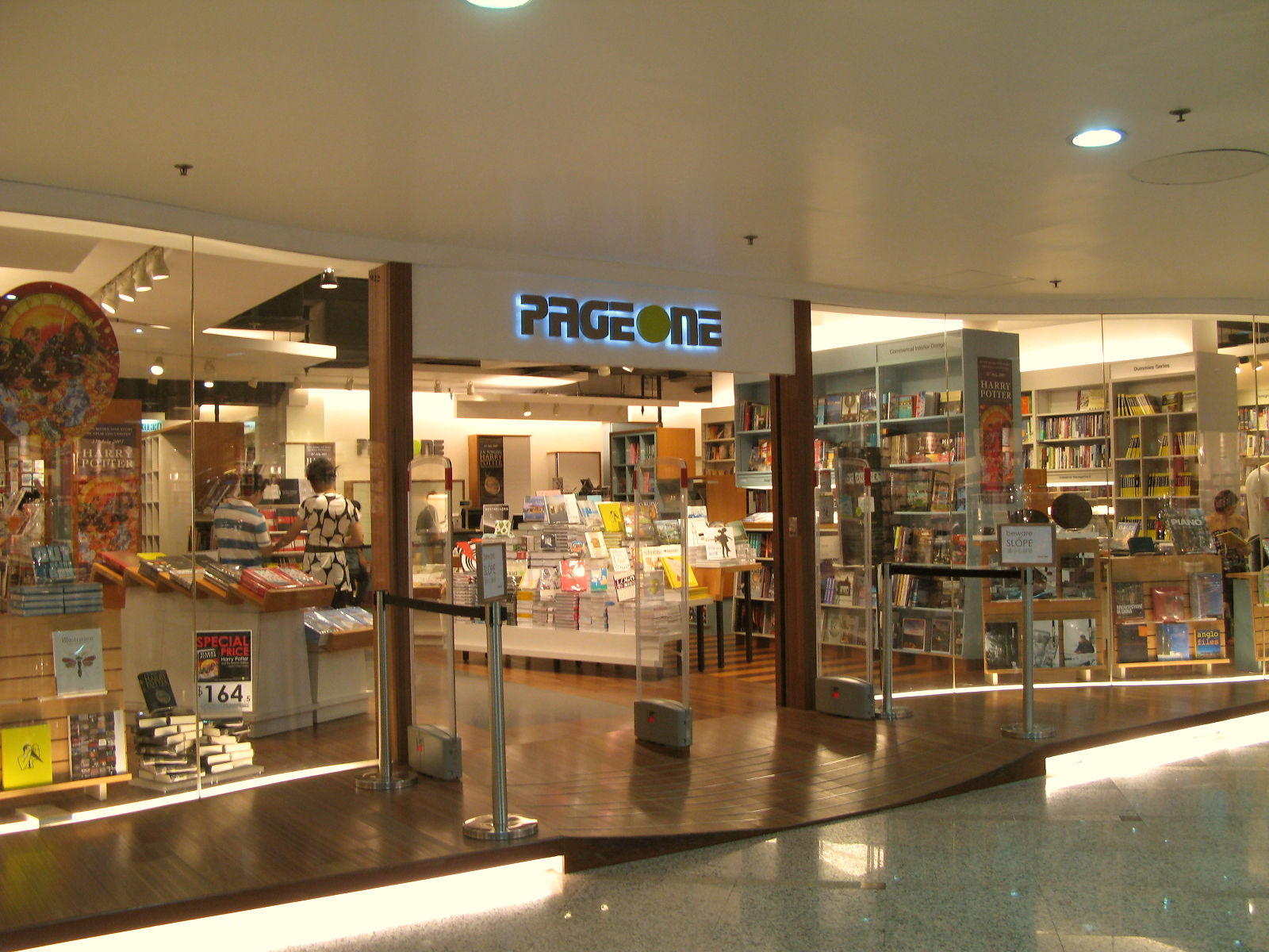 PageOne Book Store in Hong Kong Time Square